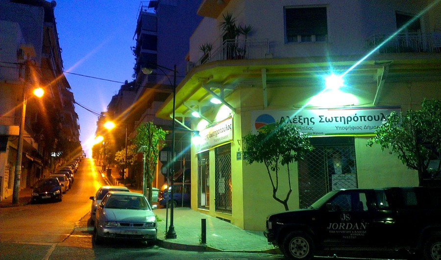 vyron